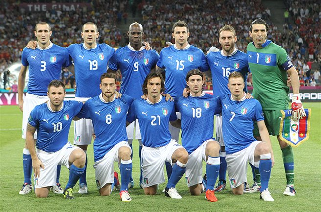 Italy national football team starting XI at Euro 2012 final against Spain. Backrow, left to right: Giorgio Chiellini, Leonardo Bonucci, Mario Balotelli, Andrea Barzagli, Daniele de Rossi and Gianluigi Buffon; Frontrow, left to right: Antonio Cassano, Claudio Marchisio, Andrea Pirlo, Riccardo Montolivo and Ignazio Abate.